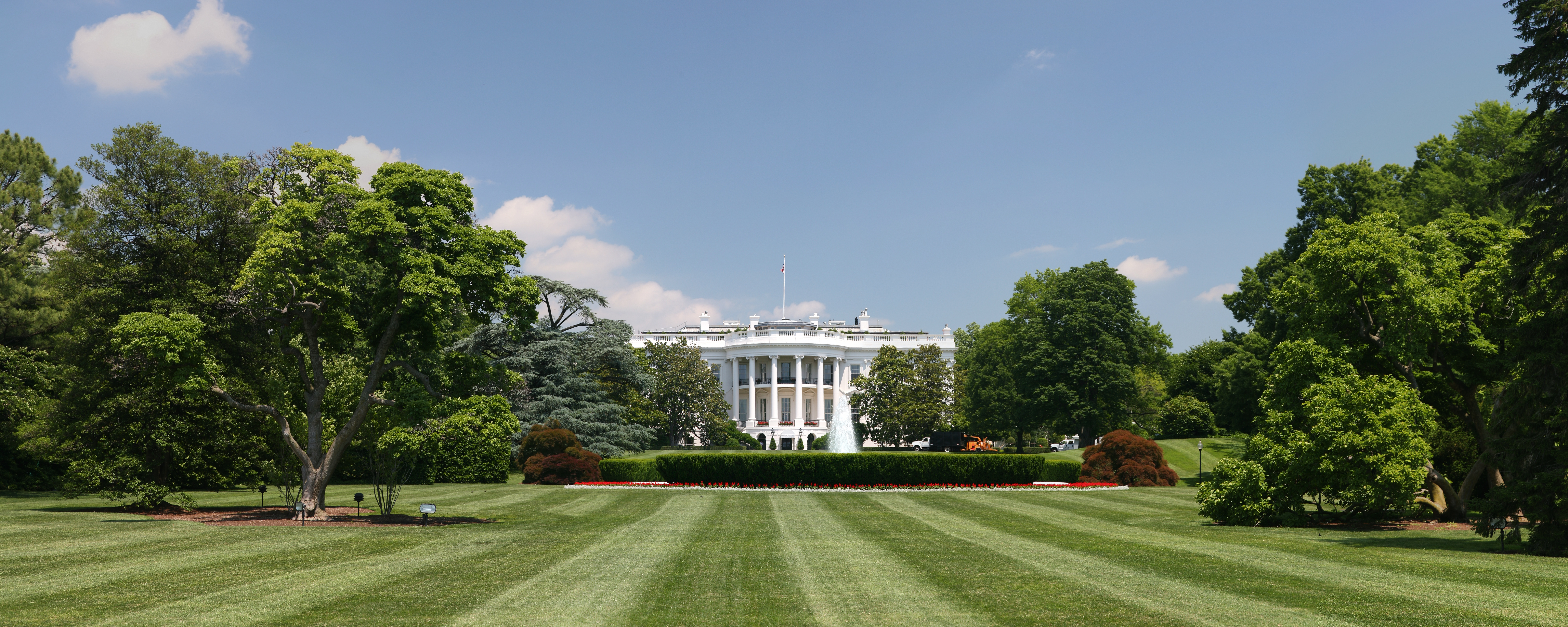 Lawn in front of the White House, Washington, DC.